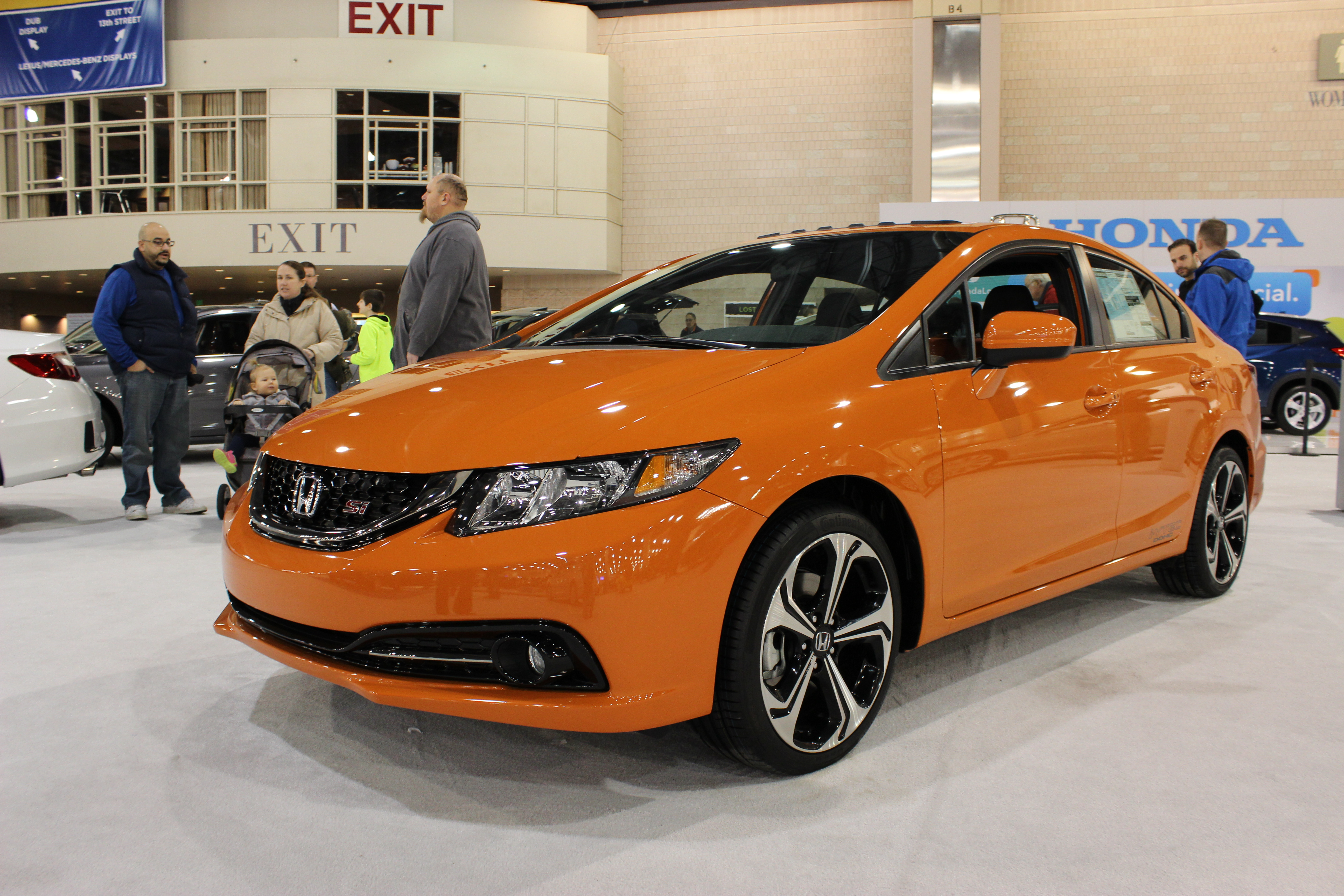 Honda Civic Si